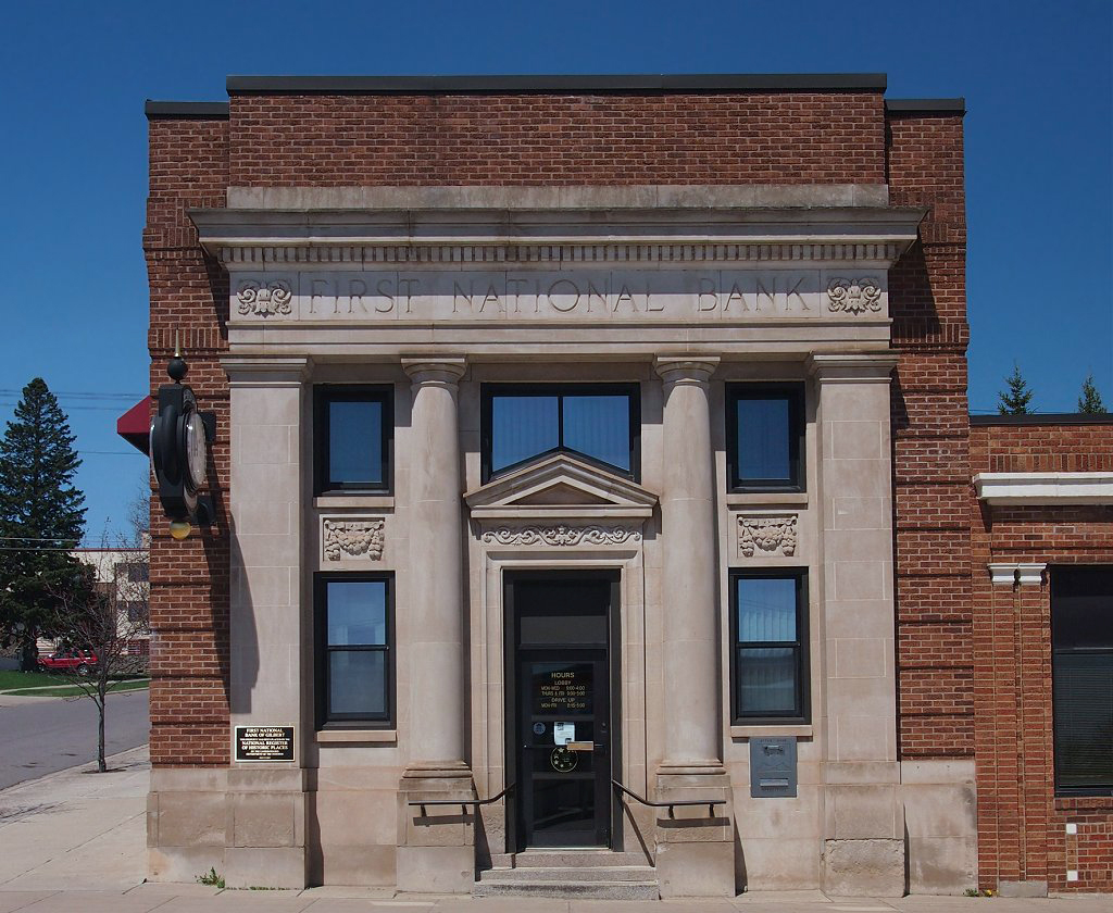 First National Bank of Gilbert, 2 N. Broadway, Gilbert, Minnesota, USA. Viewed from the southeast.